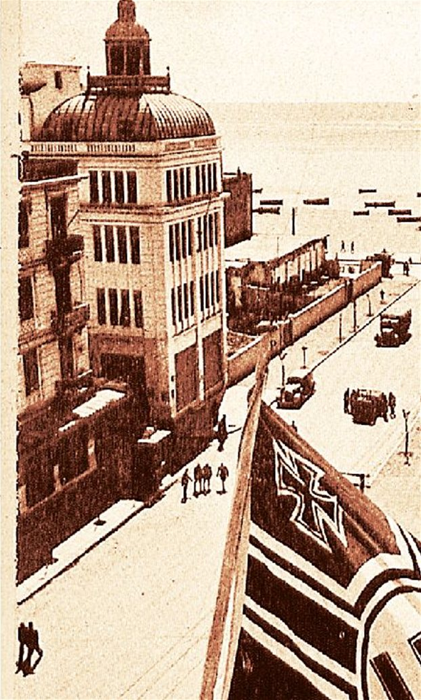 The famous Stein Building on Eleftherias Square in Thessaloniki, Greece, seen from the hotel The Ritz, which was used by the German occupation forces as living quarters at the time.